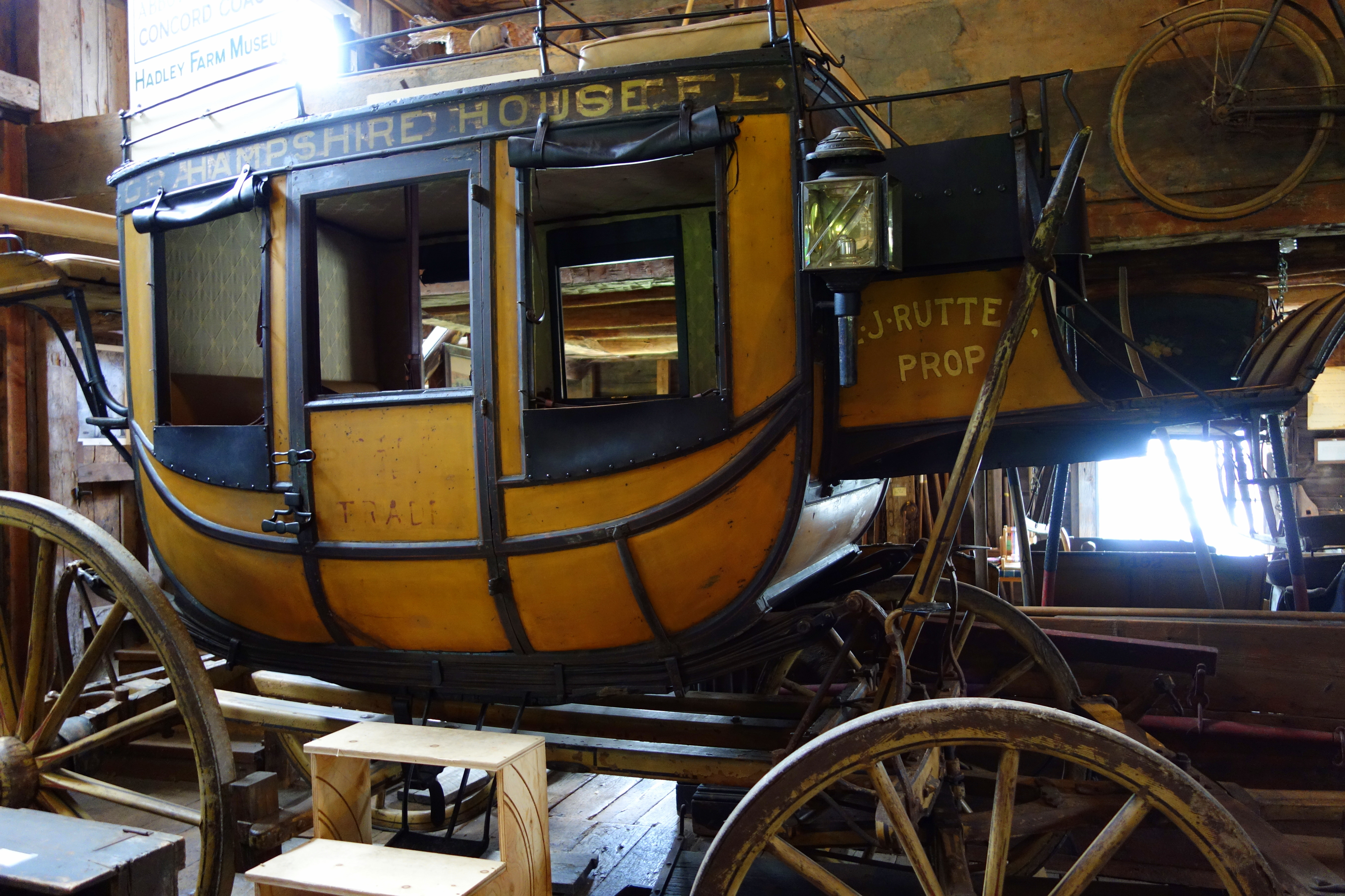 Exhibit in the Hadley Farm Museum, Hadley, Massachusetts, USA. The museum allowed photography without restriction.